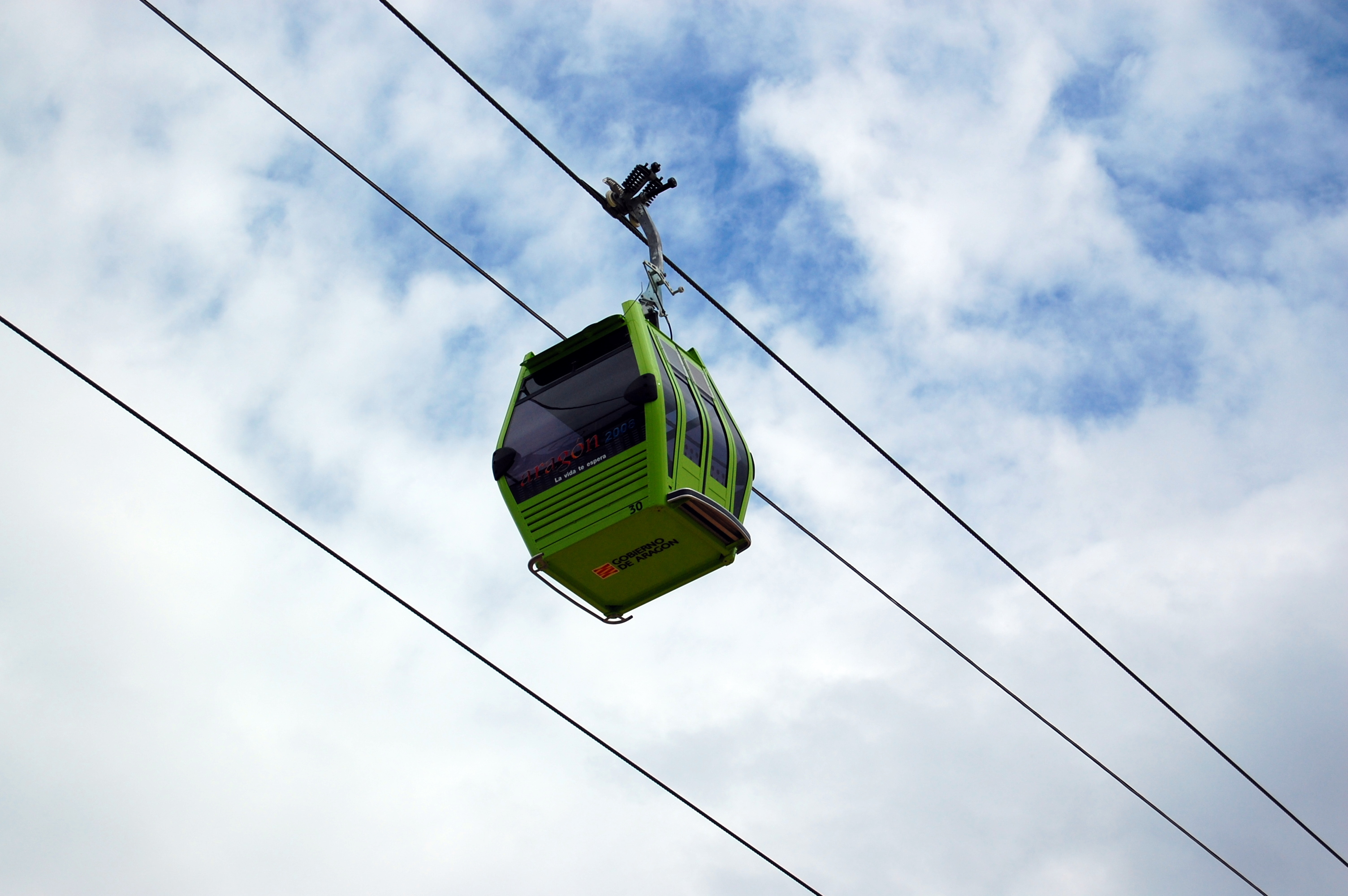 Gondola lift at the Expo Zaragoza 2008, Spain.